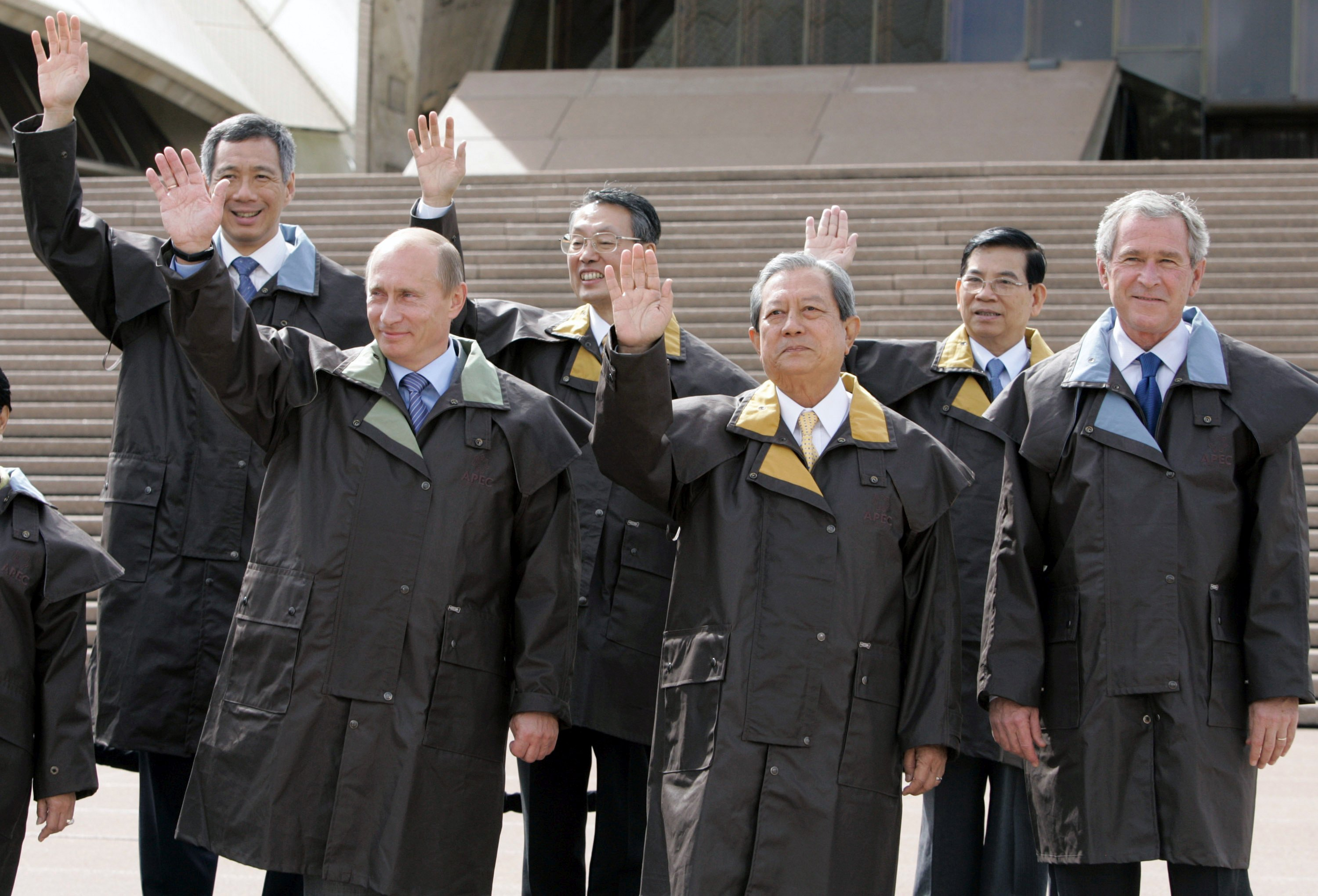 SYDNEY. Official photo session. President of Russia Vladimir Putin, Prime Minister of Thailand Surayud Chulanont, U.S. President George W. Bush (left to right, first row), Prime Minister of Singapore Lee Hsien Loong, representative of Taiwan Stan Shih and President of Vietnam Nguyen Minh Triet (left to right, second row).